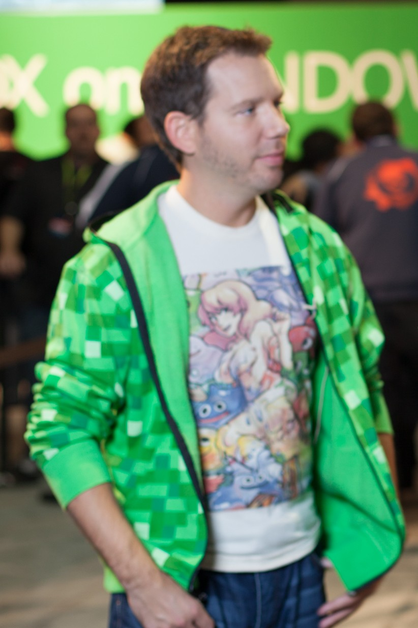 CliffyB at PAX Prime 2012.